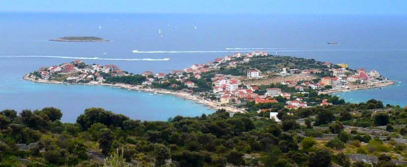 Sevid in the municipality Marina, Croatia.